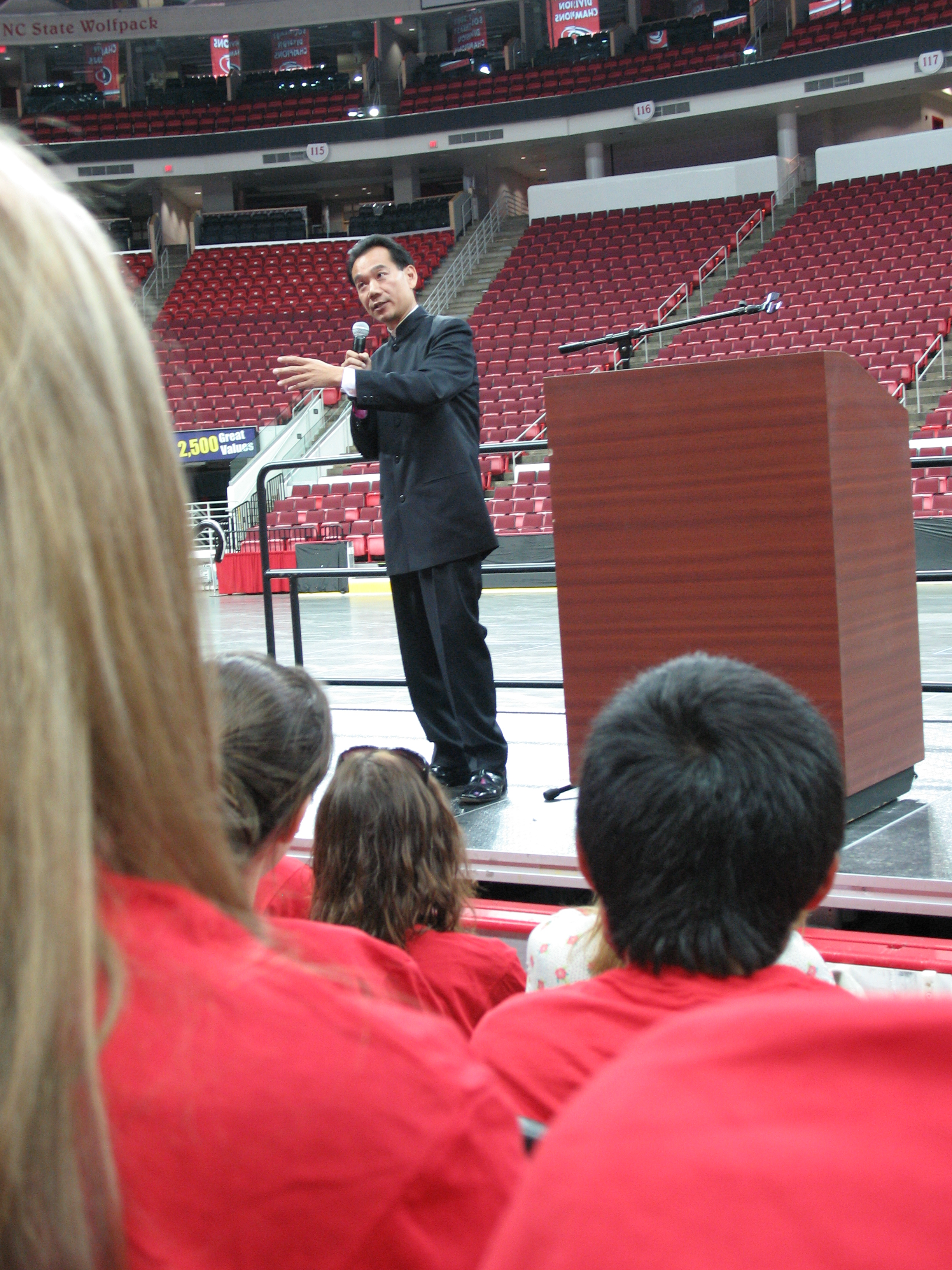 Da Chen speaking at NCSU convocation